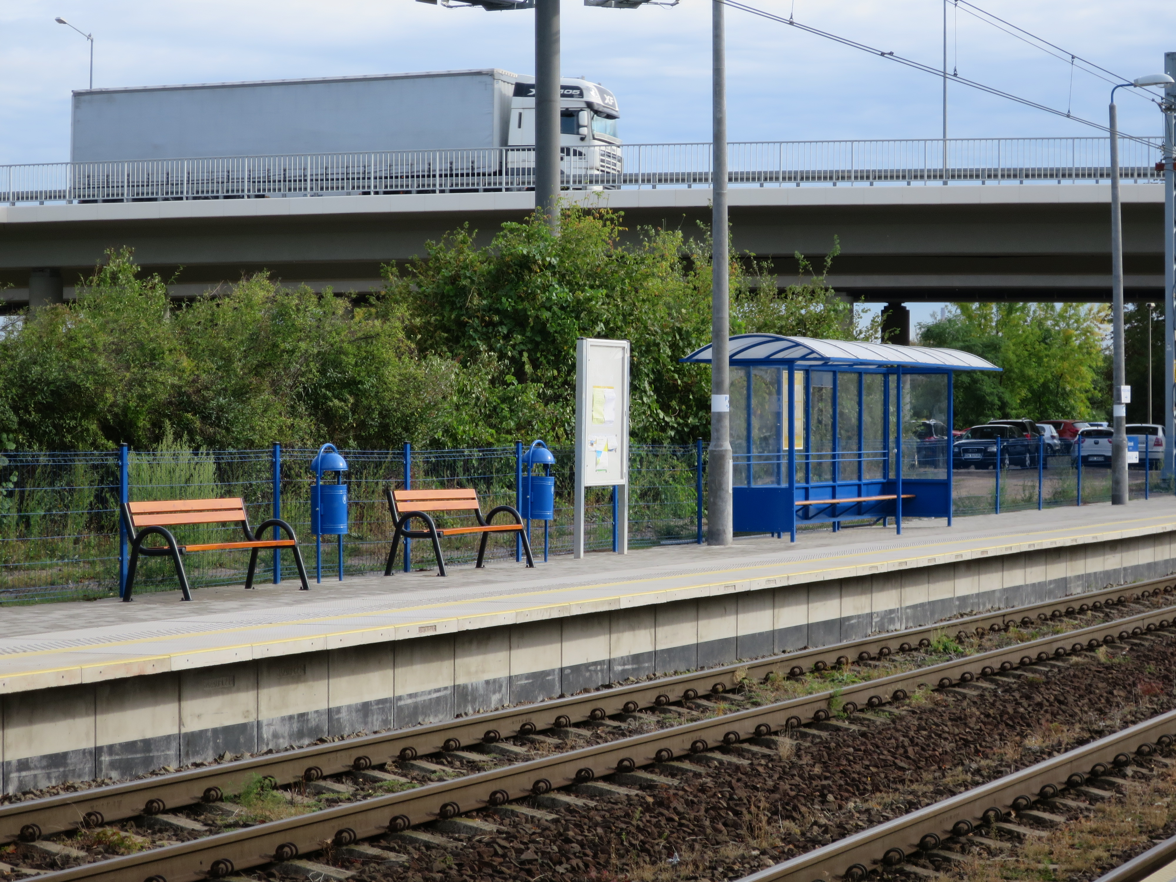 Wrocław Grabiszyn This photo was taken during Railway Wikiexpedition 2015 set up by Wikimedia Polska Association in cooperation with Fundacja Grupy PKP.You can see all photographs in category Wikiekspedycja kolejowa 2015.